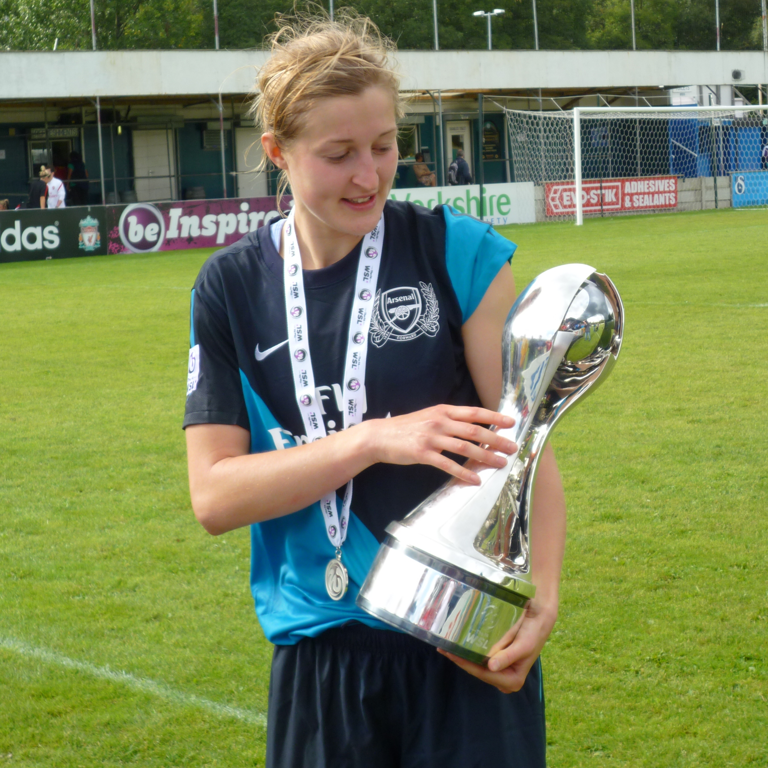 Arsenal Ladies footballer Ellen White holding the FA WSL trophy.